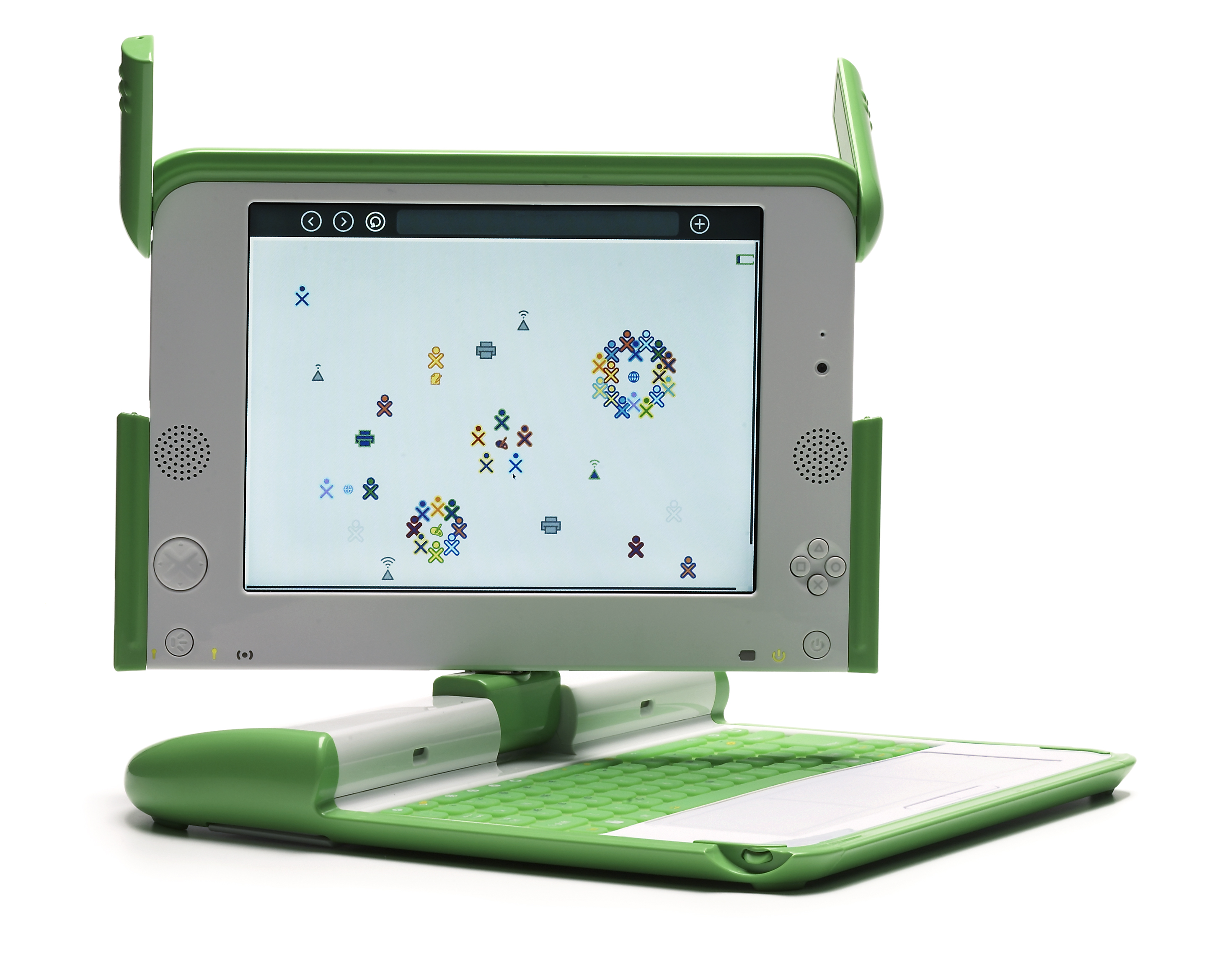 XO, Children's Machine, OLPC, $100 laptop/ Beta 1 machine